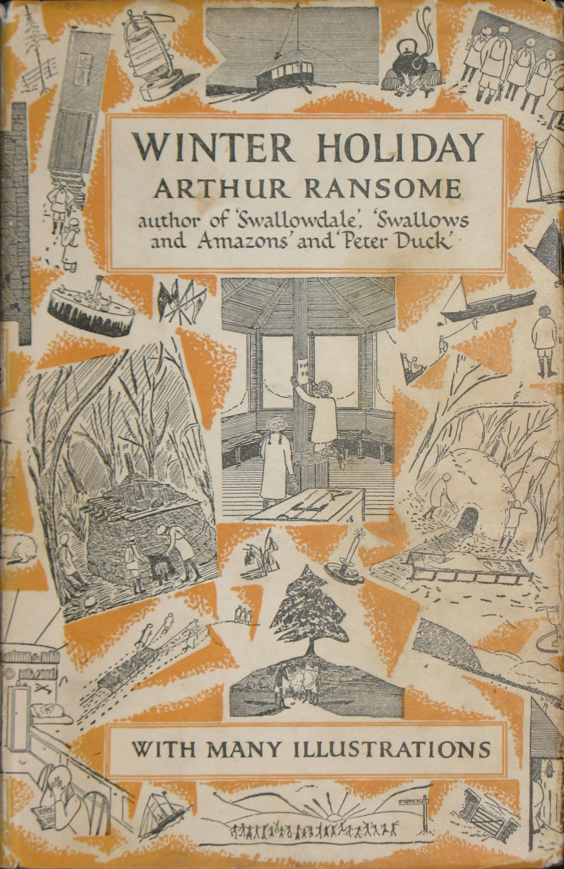 photo of Jonathan Cape edition of Arthur Ransome's 1933 novel, Winter Holiday